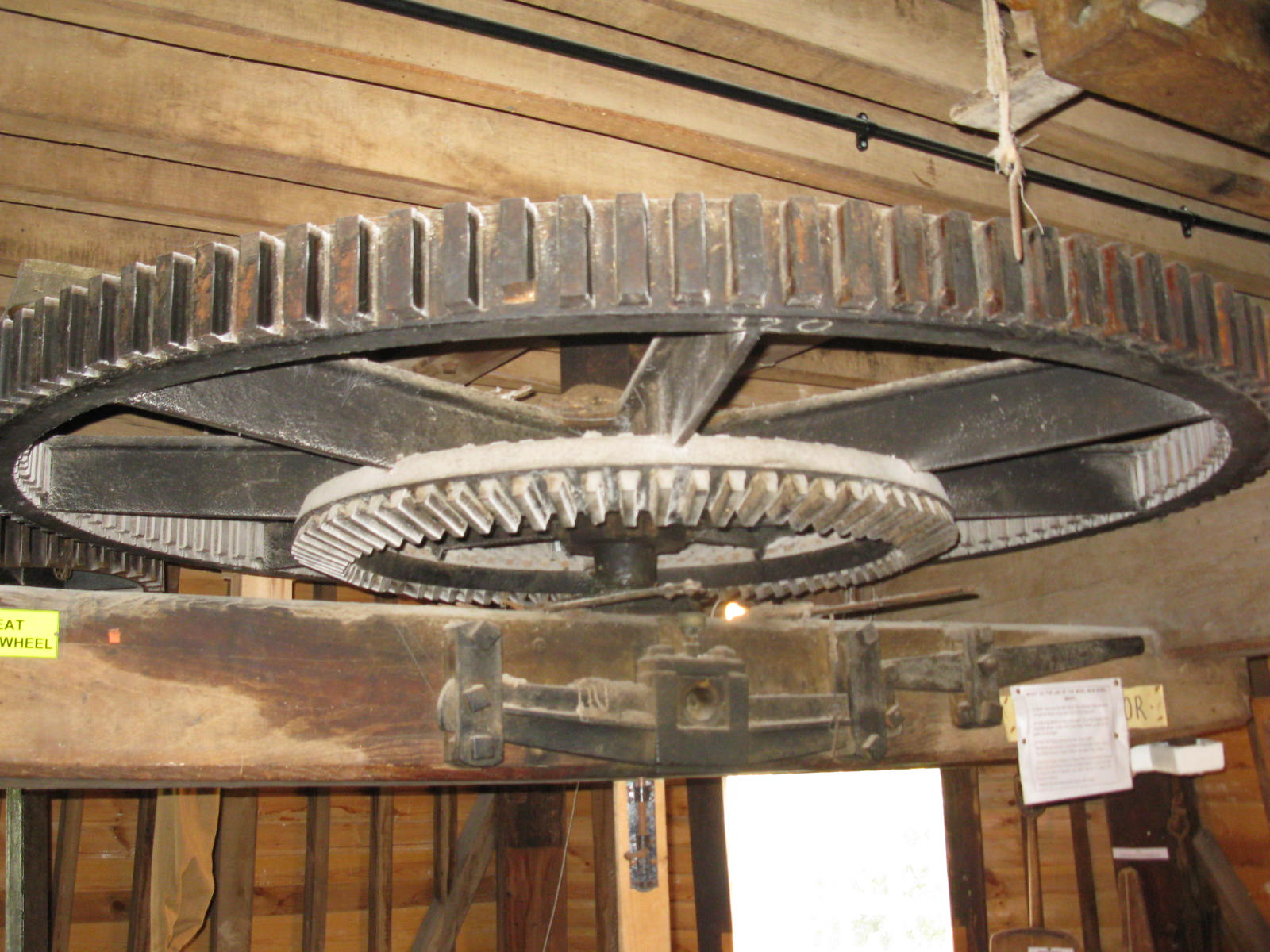 The great spur wheel, Union Mill, Cranbrook. Cast iron with wooden cogs. Note the crown wheel below. This was used to drive auxiliary machinery.